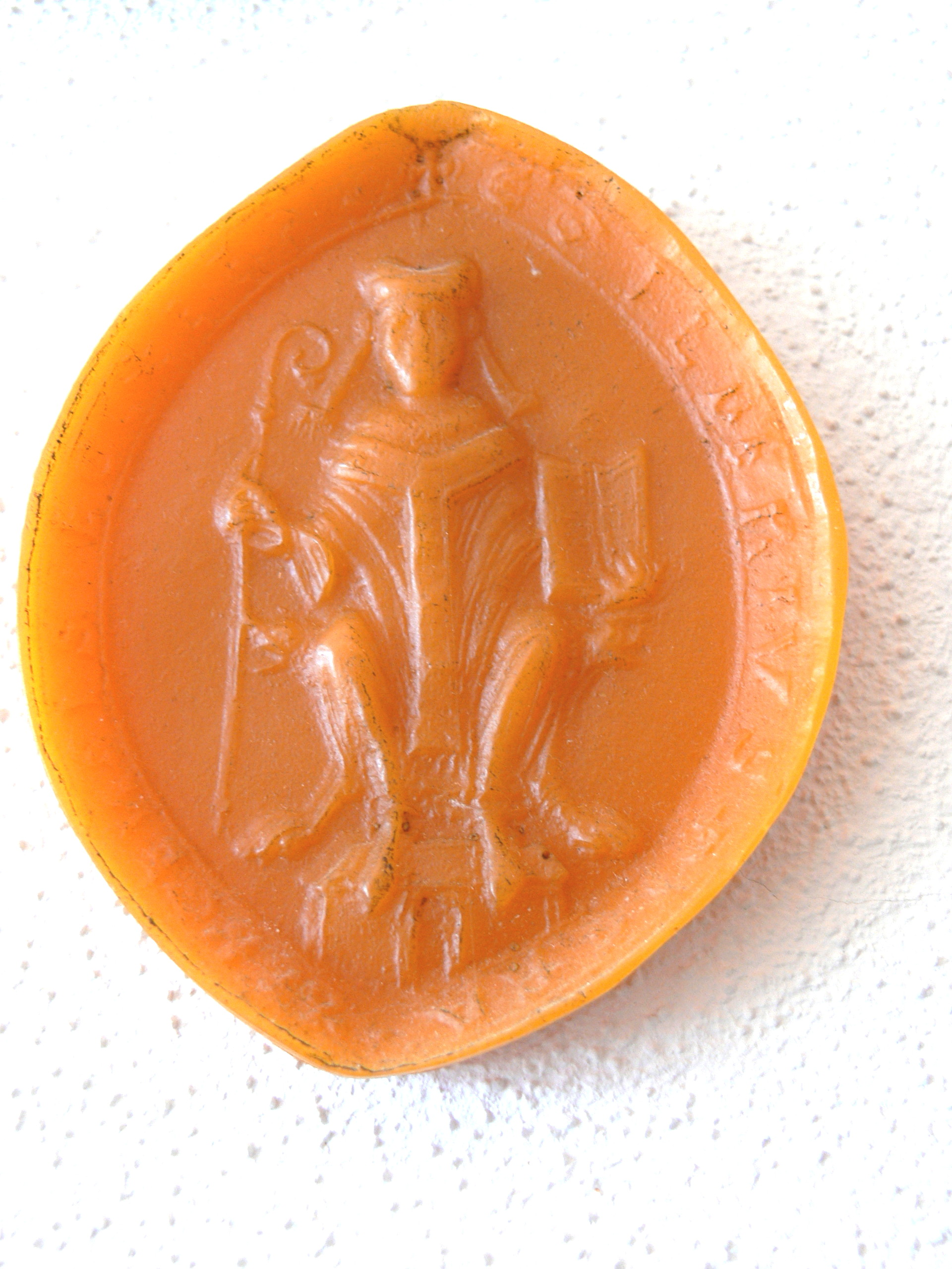 Seal of Egilbert, bishop of Bamberg 1145